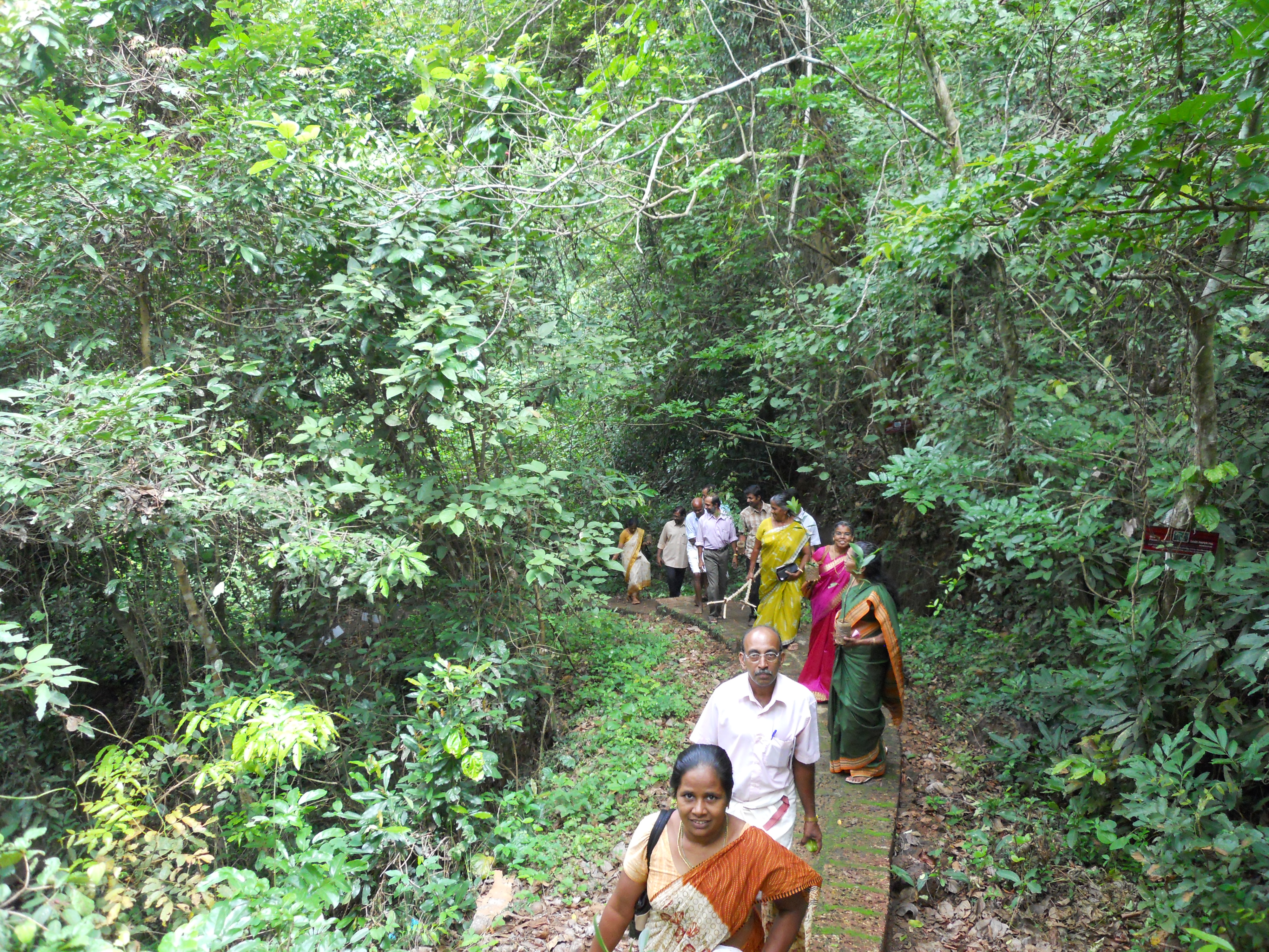 karimbam biodiversity centre